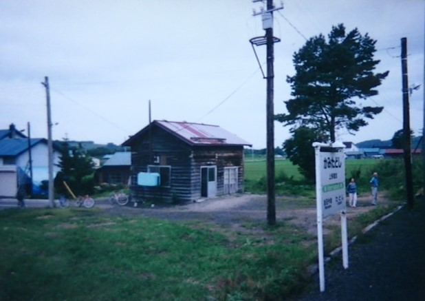 JR Shinmei line Kami Tadoshi station (1995)